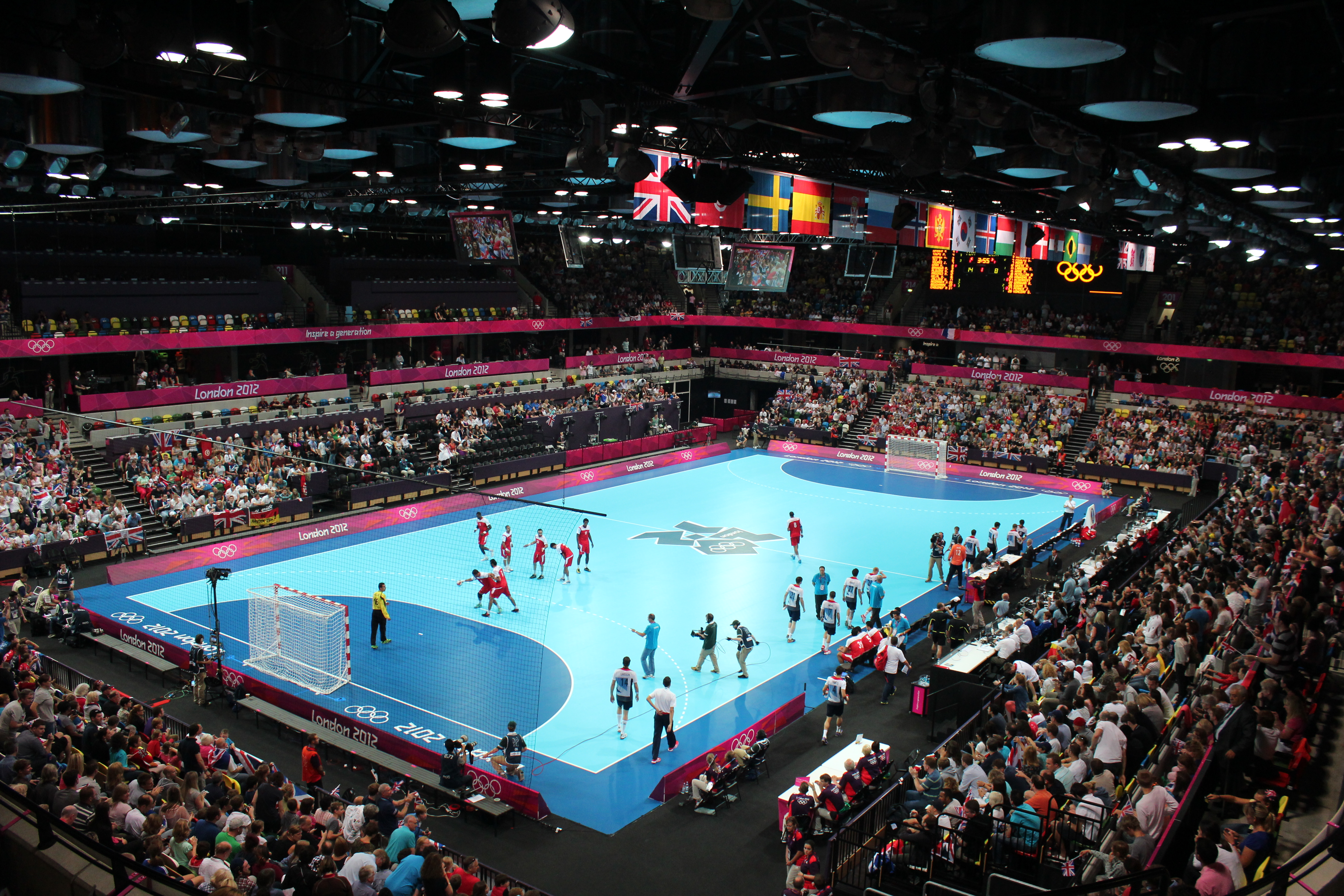 London Olympics 2012. Handball.